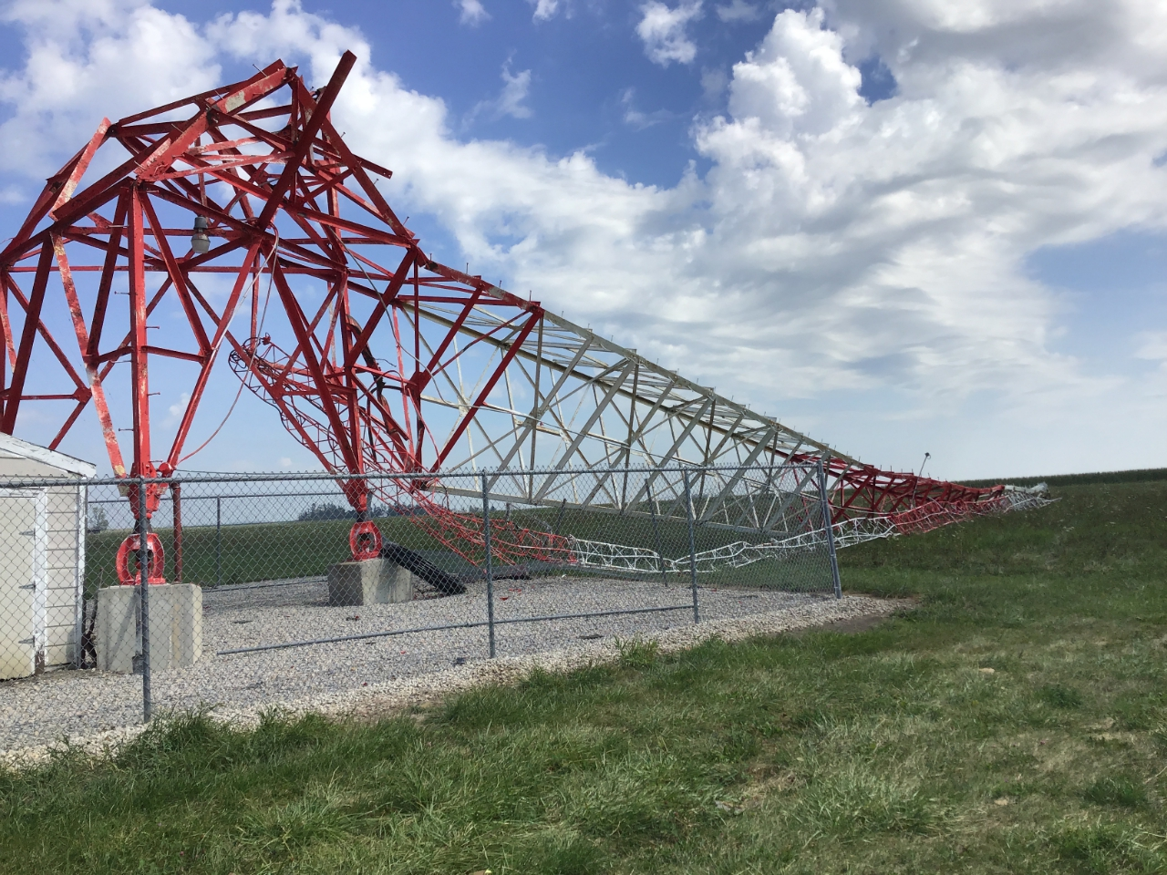 Collapsed radio tower bent and toppled to the ground by extreme winds from the August 2020 Midwest derecho. Tower of local radio station WMT (AM) north of Marion, Iowa. NWS estimates winds around 130 mph (210 km/h; 58 m/s) caused this particular damage.